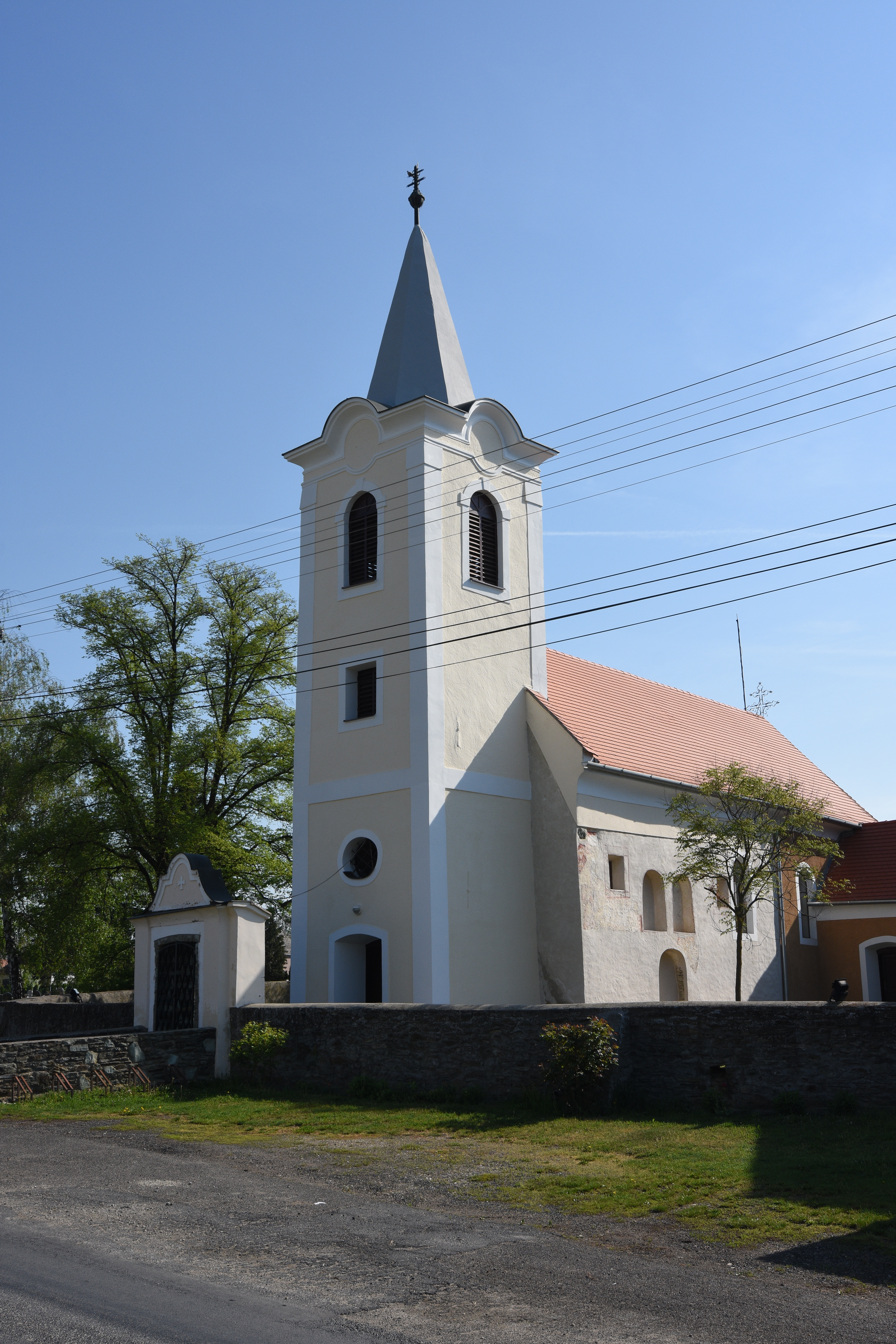 Holy Cross church, Nagynarda